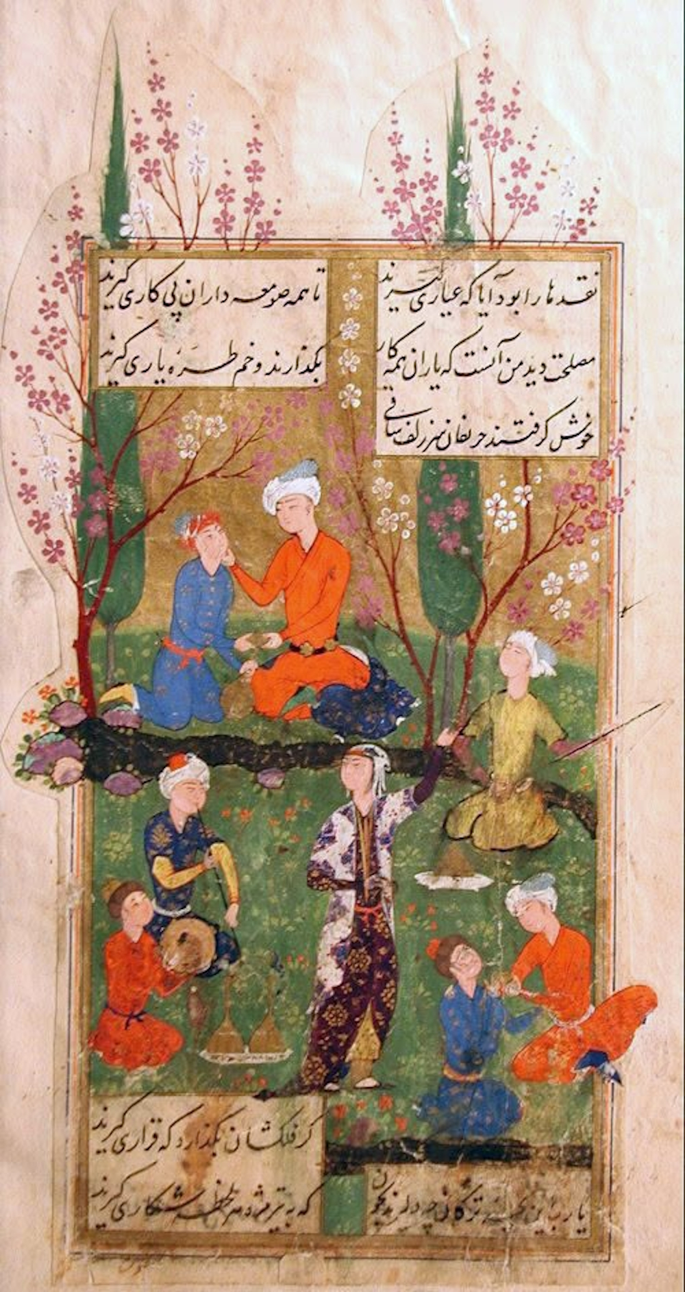 From a manuscript of Divan of Hafez.